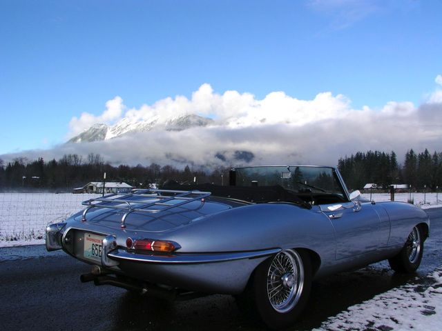 1965 Jaguar E-type OTS, as seen from the rear.